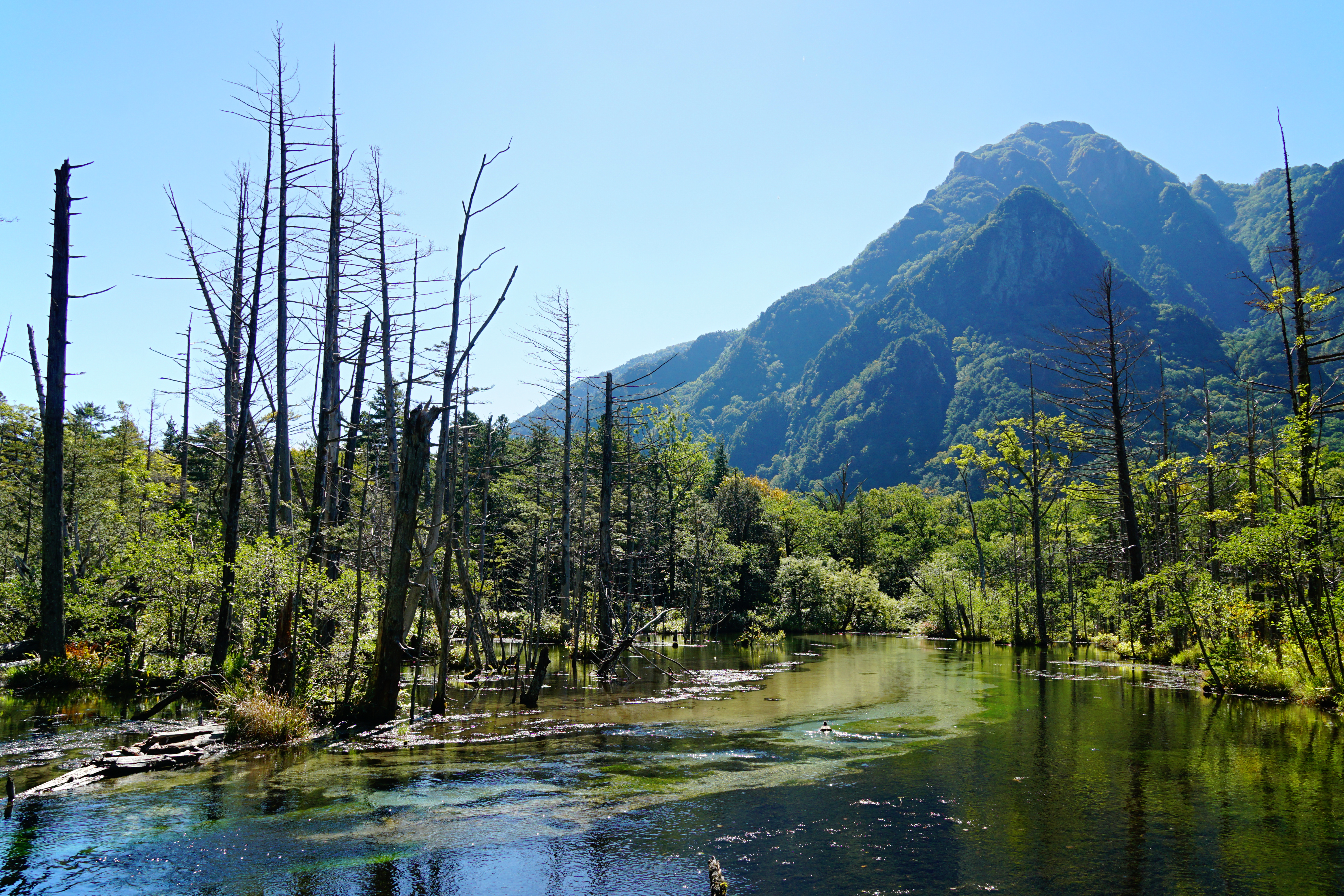 At Gakusawa wetlands in Kamikochi, Matsumoto, Nagano prefecture, Japan